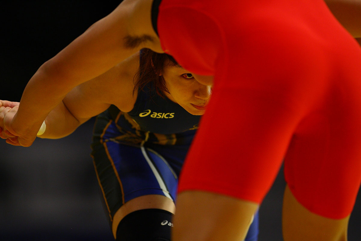 OCTOBER 13, 2008 - Wrestling : Kyoko Hamaguchi of Japan in action during the 2008 Senior Female Wrestling World Championships at 1st Yoyogi Gymnasium on October 13, 2008 in Tokyo, Japan. (Photo by Tsutomu Takasu)